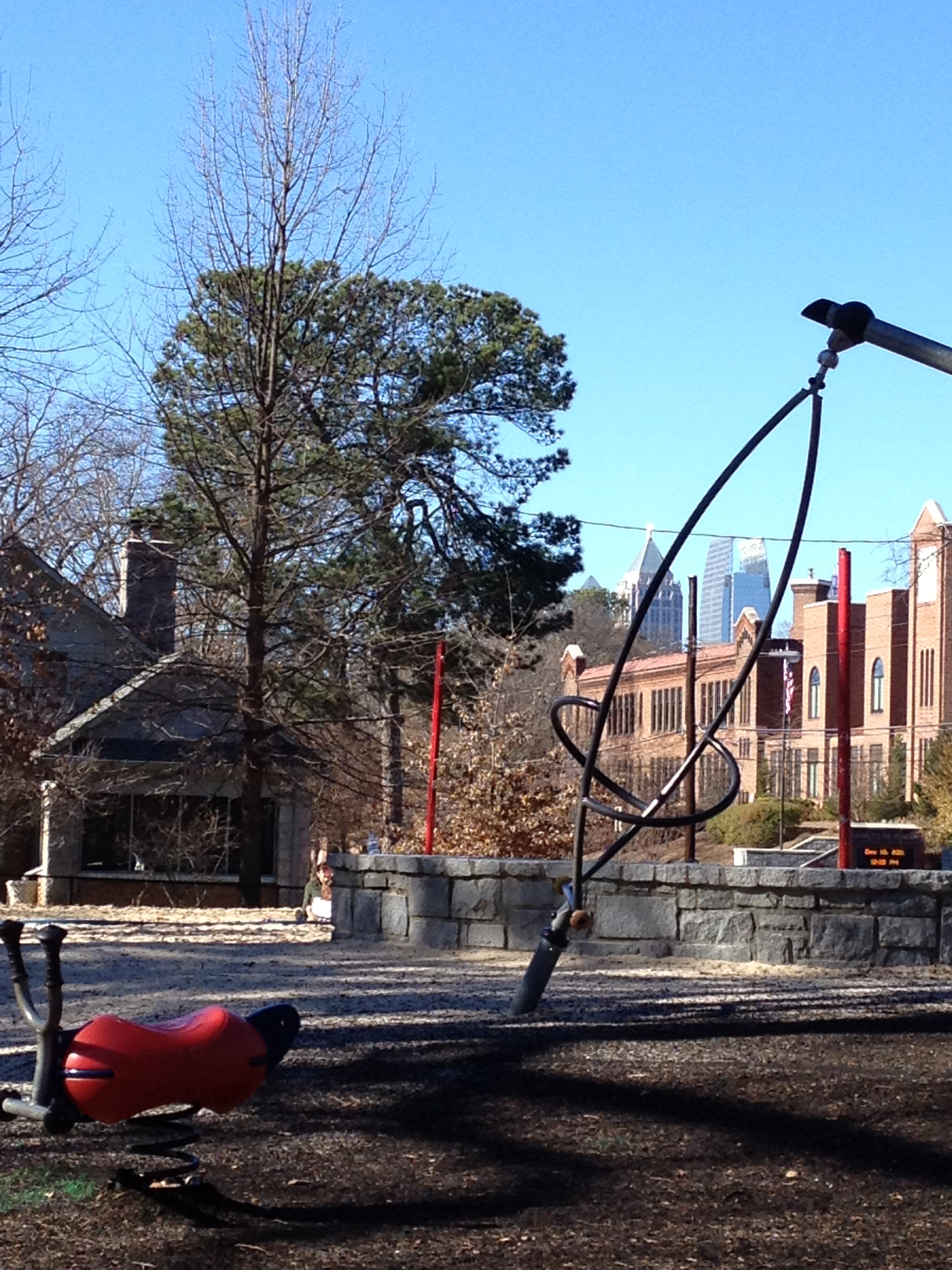 John Howell Park, view to Midtown skyline